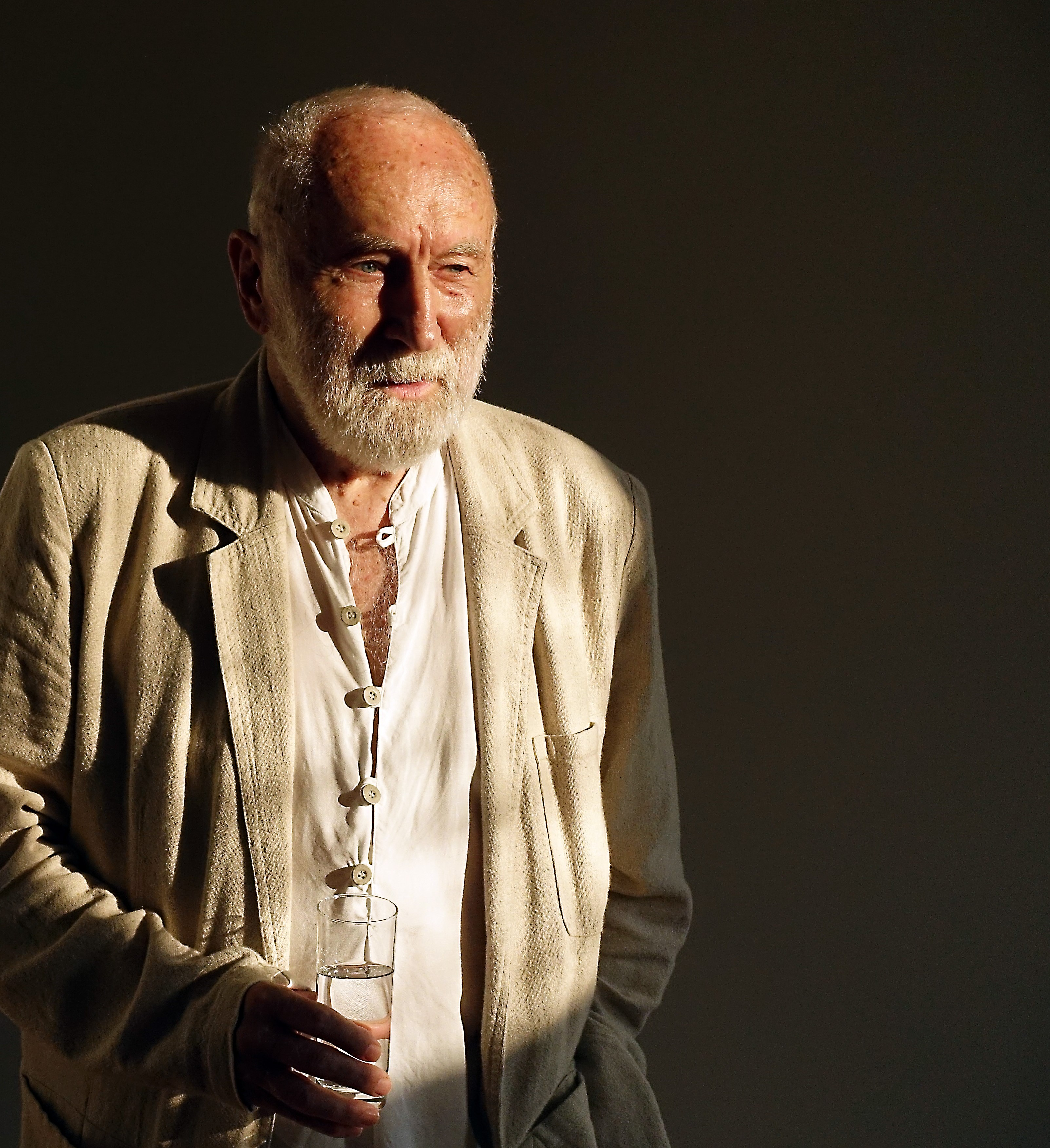 Oldřich Král at his 85th birthday celebration, Zdeněk Sklenář Gallery, Prague